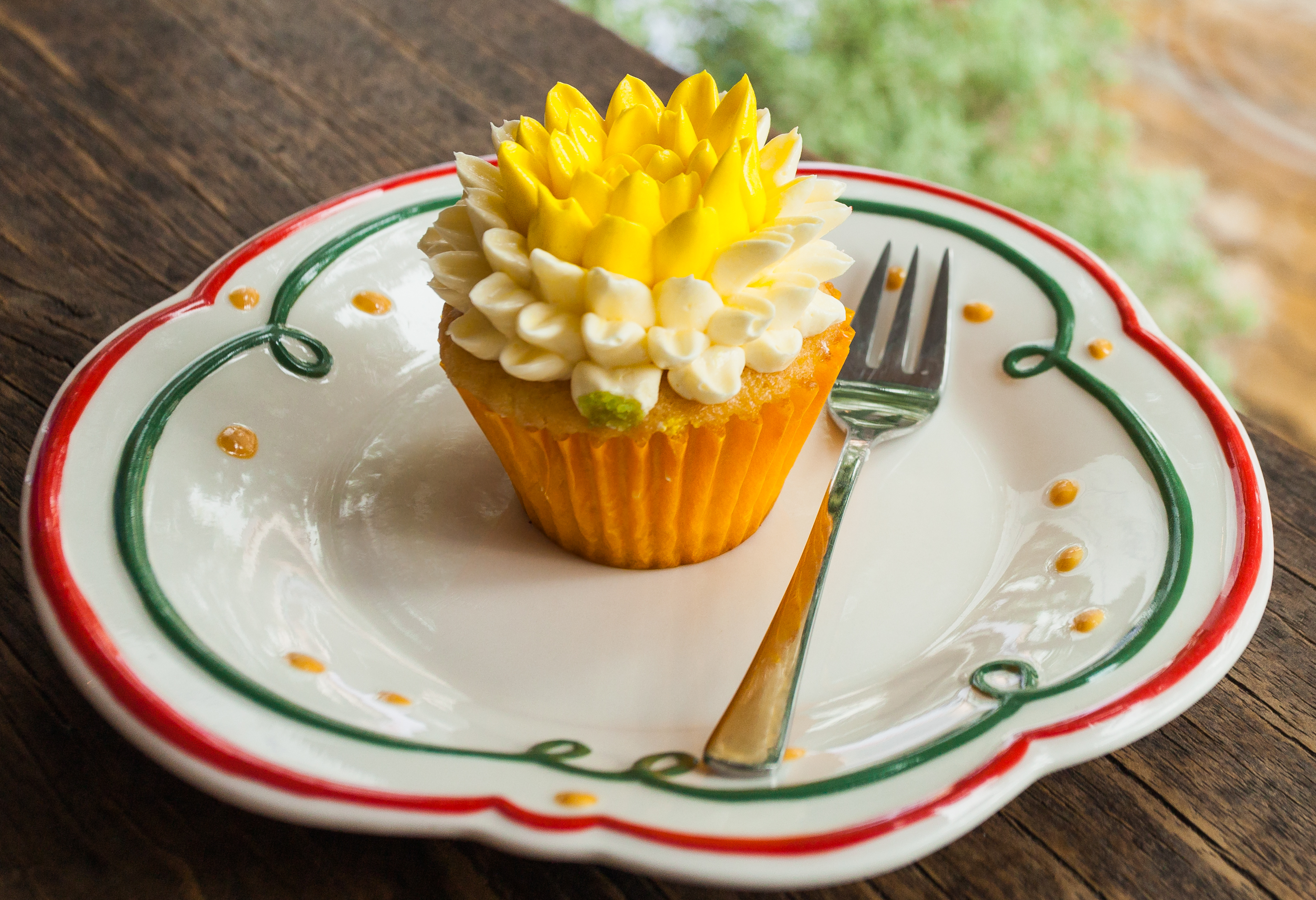 Muffin, Ho Chi Minh City, Vietnam